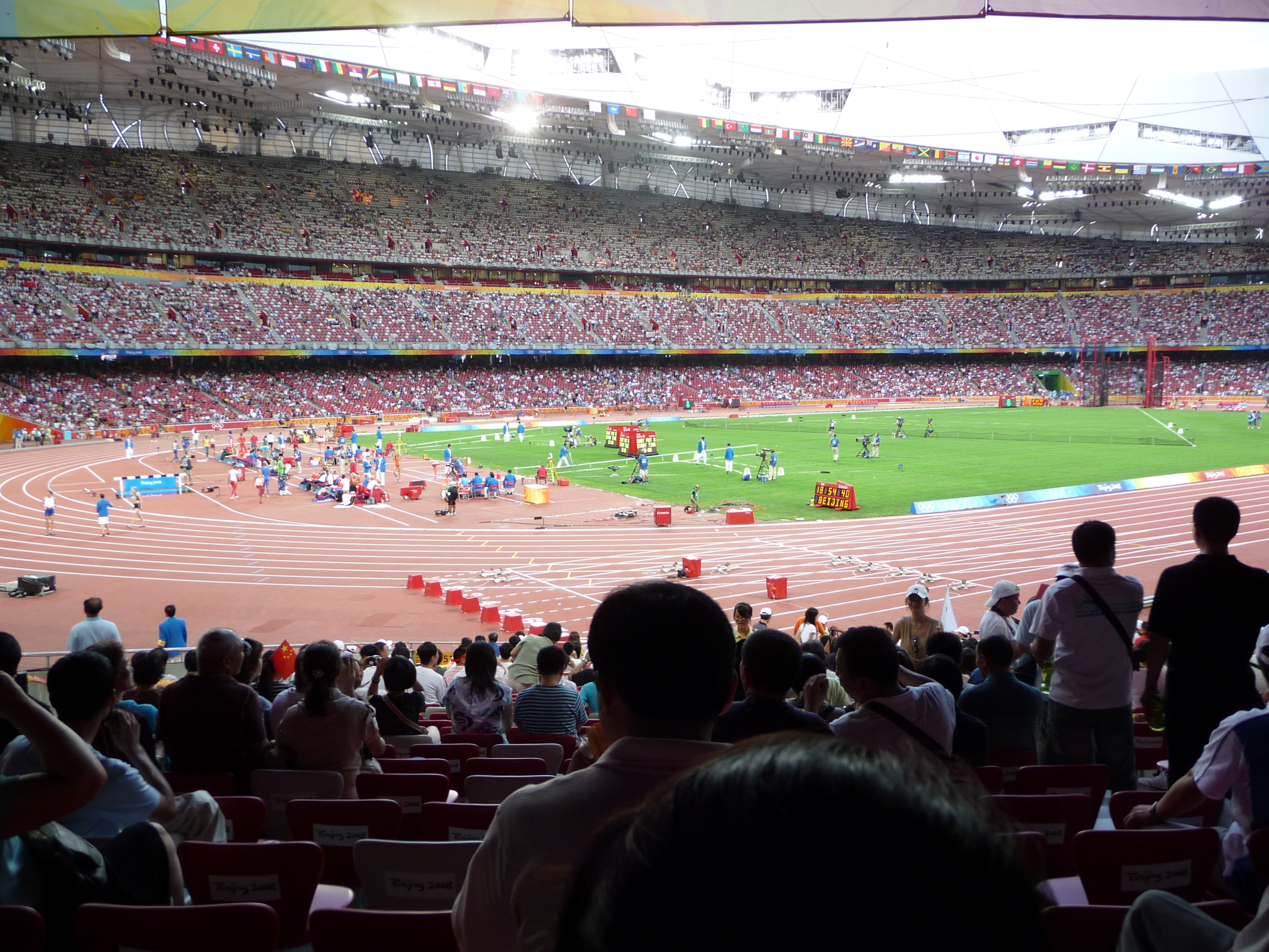 Beijing Olympic Stadium 2008:08:15 18:53:35 PDT Track and field event